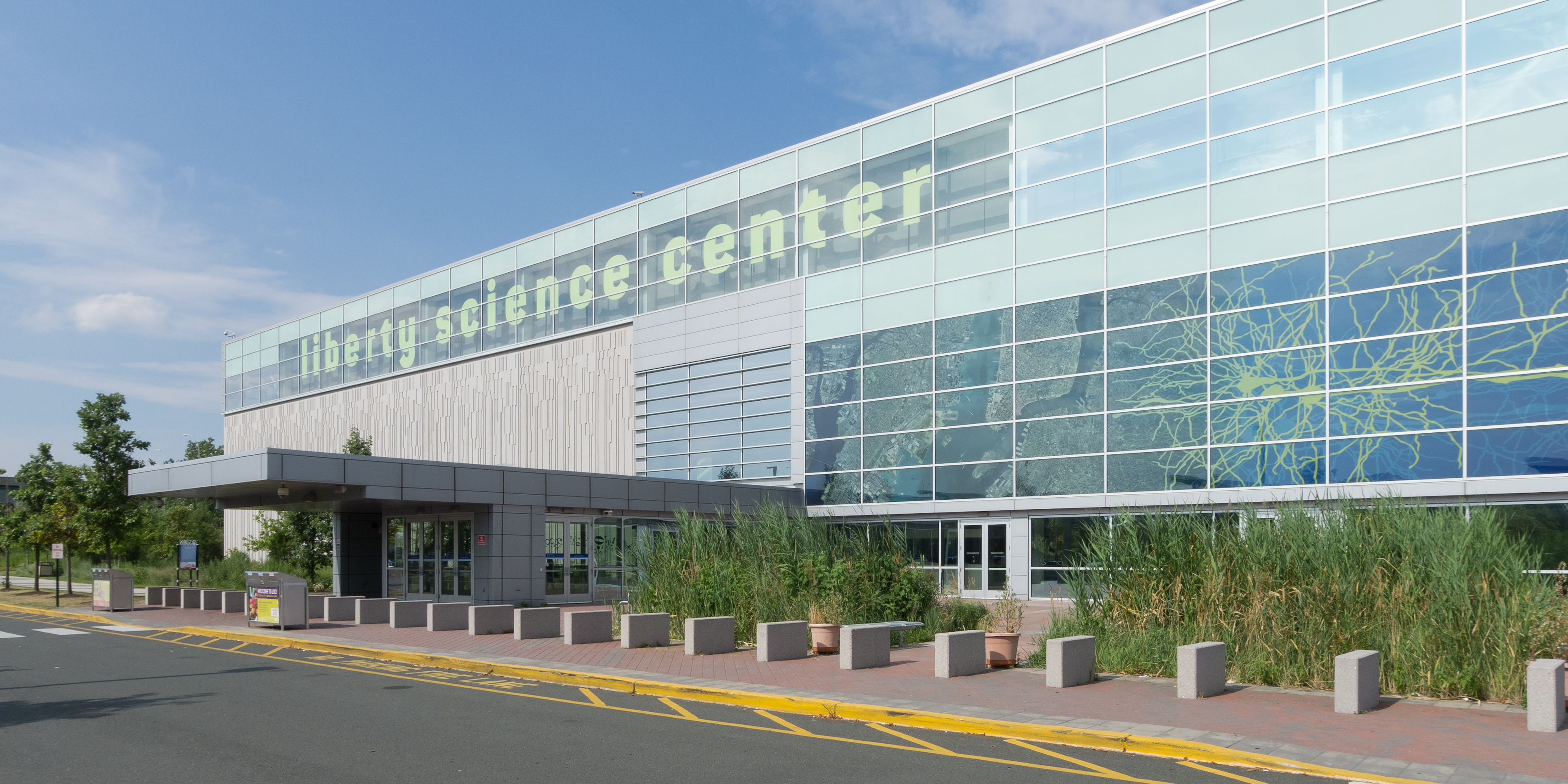 Liberty Science Center, Jersey City, New Jersey.